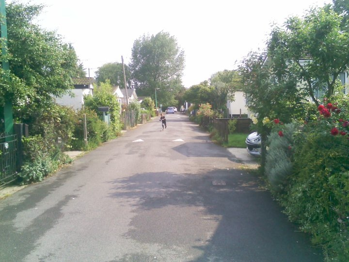 a British Rumnichal Site